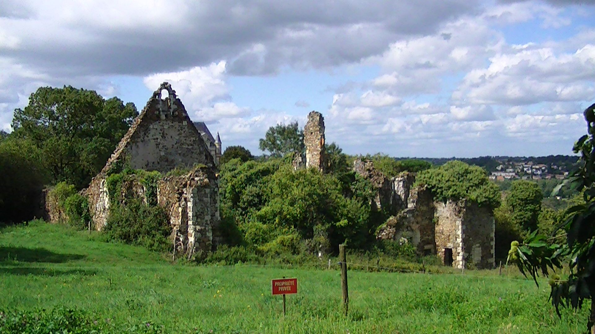 Ruins of the Priory of Saint-Jean in the Chateau de Champtoceaux .